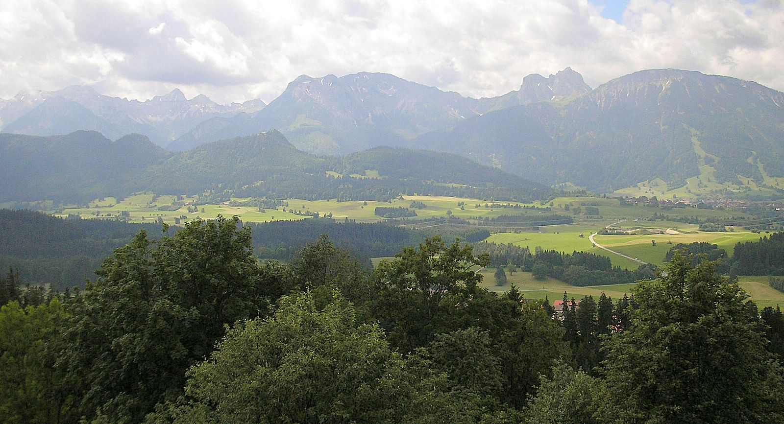 Hohenfreyberg castle (Landkreis Ostallgäu, Bavaria, Germany). Looking south to the Tannheim mountains (Bavaria, Tyrol)